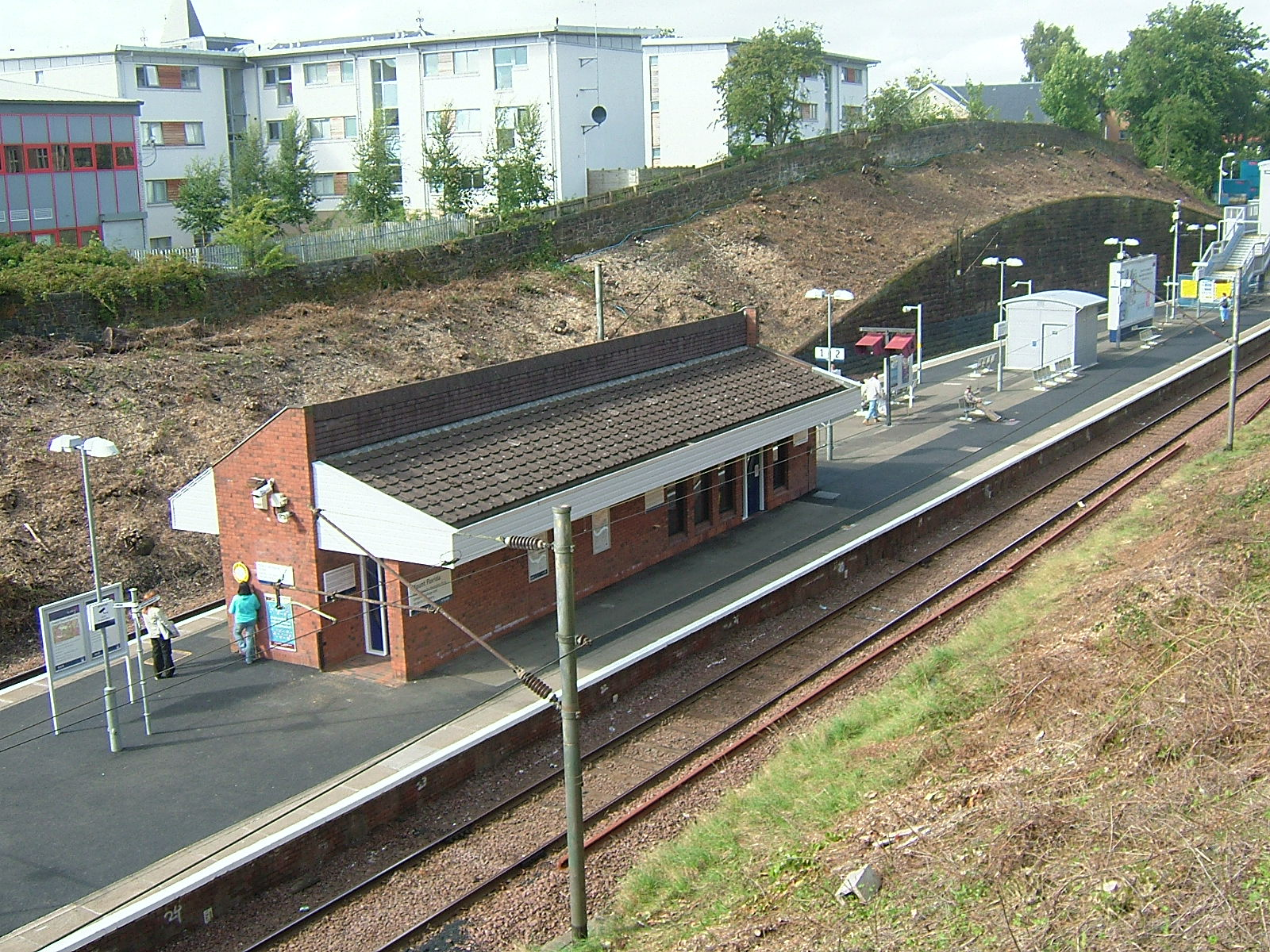 View of Mount Florida railway station